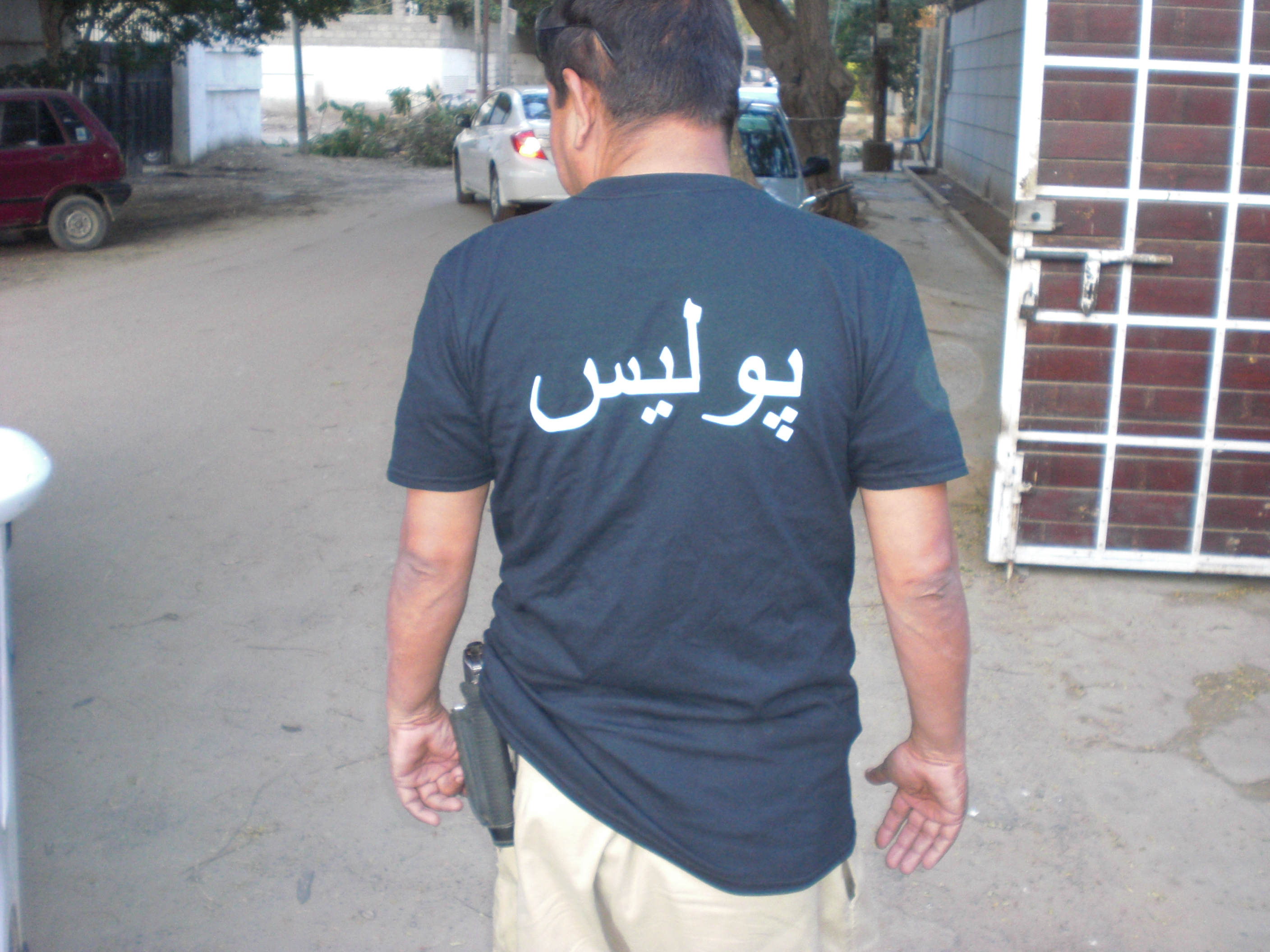 A Sindh police constable in uniform